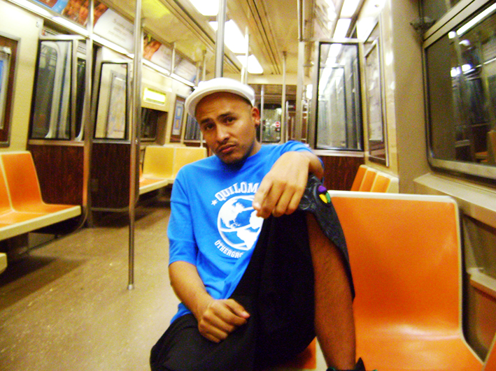 Bocafloja New York City, New York 2009